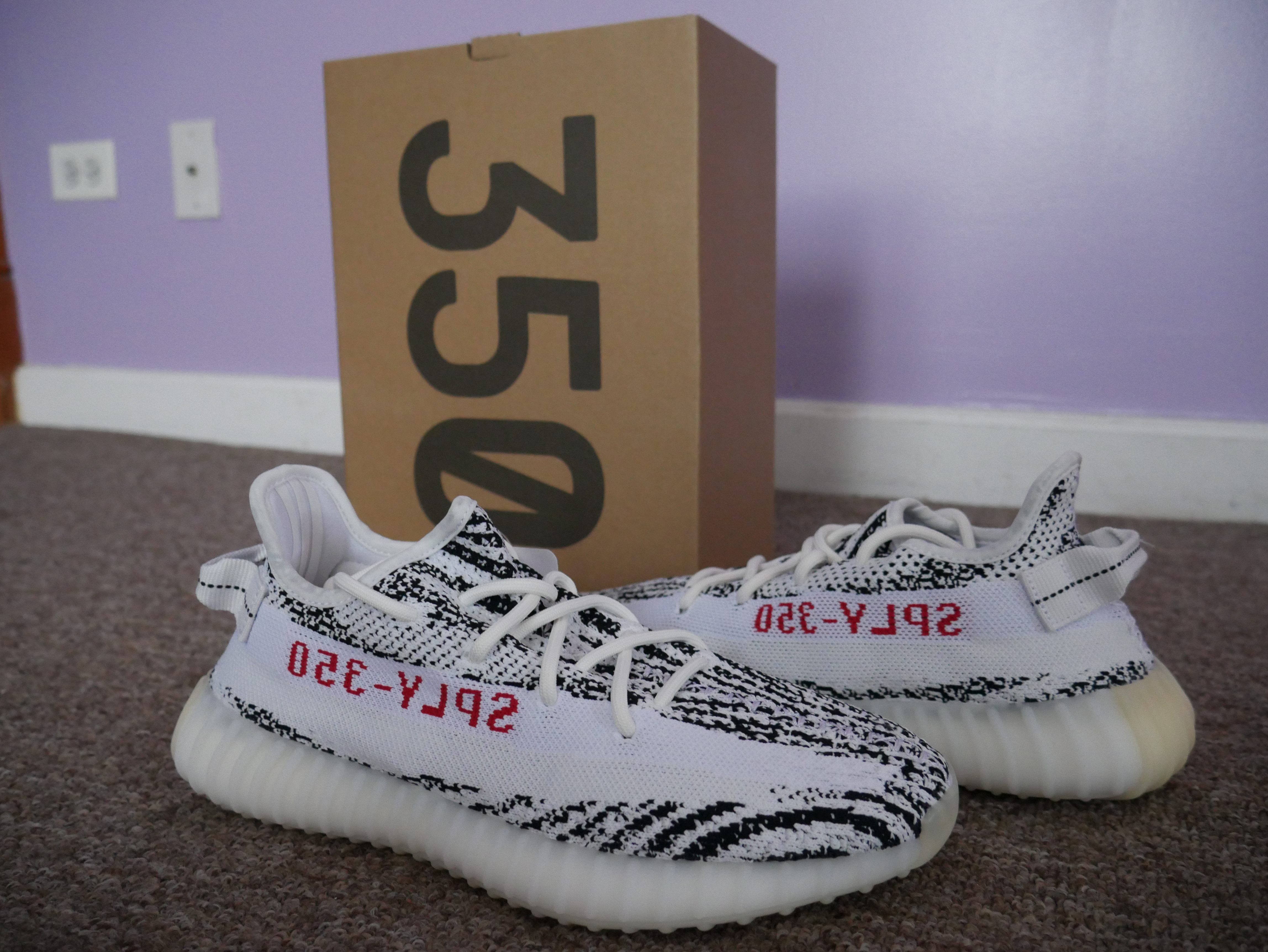 Adidas Yeezy Boost v2 "Zebra"